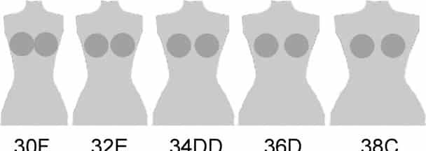 A diagram showing how European bra cup sizes are relative to the band size, and how the cups remain the same volume when increasing the band and decreasing the cup and vice versa.